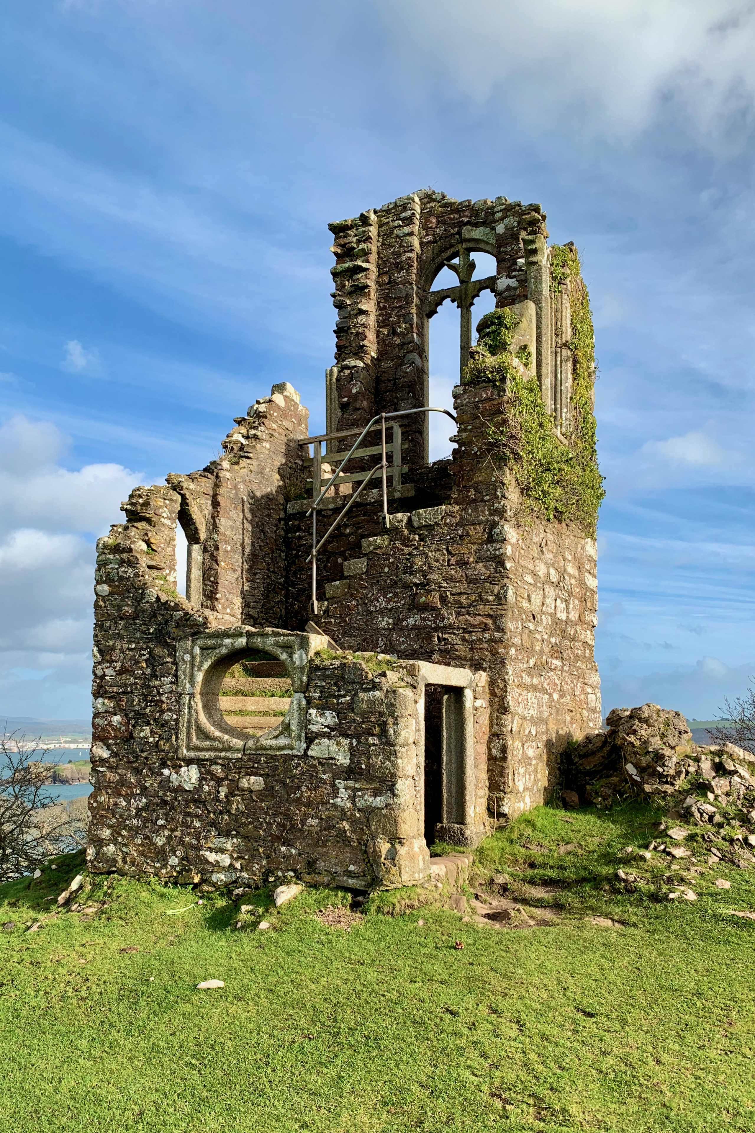 Decorative folly atop Mount Edgcumbe Country Park in Cornwall.